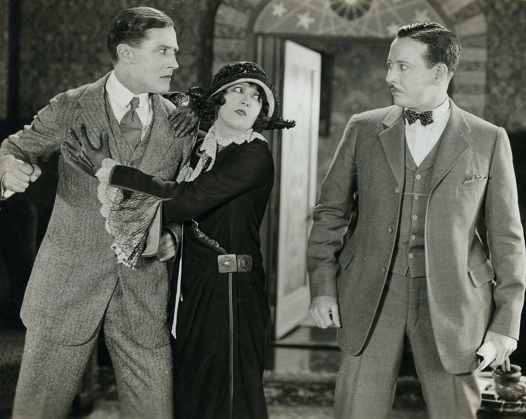 L. to R. : Vernon Steele, Estelle Taylor & Philo McCullough in Forgive and Forget - publicity still (cropped)